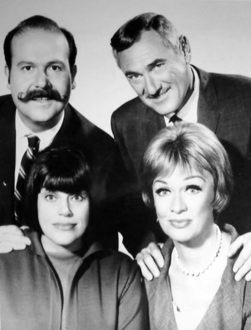 Publicity photo of the two sets of parents from the television program The Mothers-in-Law, From left: Roger C. Carmel, Herbert Rudley, Kaye Ballard, and Eve Arden.